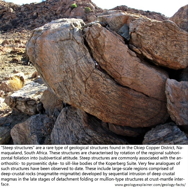 Steep structures - unique structural features characterised by rotation of foliation into subvertical attitude